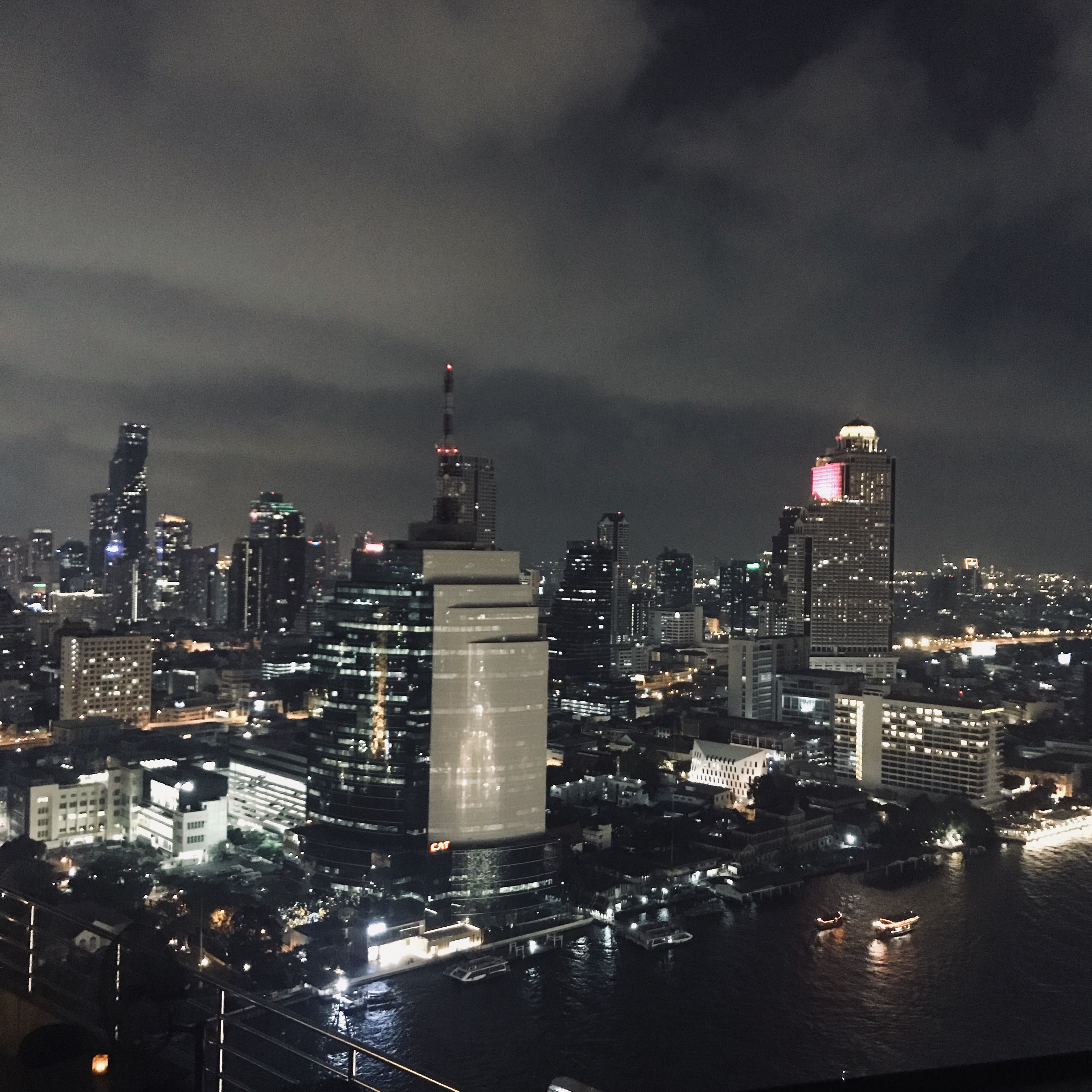 Night view of the Chao Phraya River from Millennium Hilton floor32.